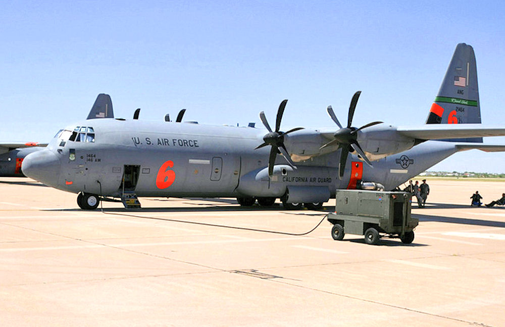 Airmen from California Air National Guard's 146th Airlift Wing, North Carolina Air National Guard's 145th Airlift Wing and Wyoming Air National Guard's 153rd Airlift Wing gather at Dyess Air Force Base, Texas to prepare for wildfire fighting operations April 18. The Airmen maintain and operate the Modular Airborne Firefighting System (MAFFS) housed aboard a C-130 Hercules capable of dispensing 3,000 gallons of water or fire retardant in under 5 seconds. The wildfires have spread across various parts of Texas and have burned more than 1,000 square miles of land. (U.S. Air Force Photo by Tech. Sgt. Robert Wollenberg)